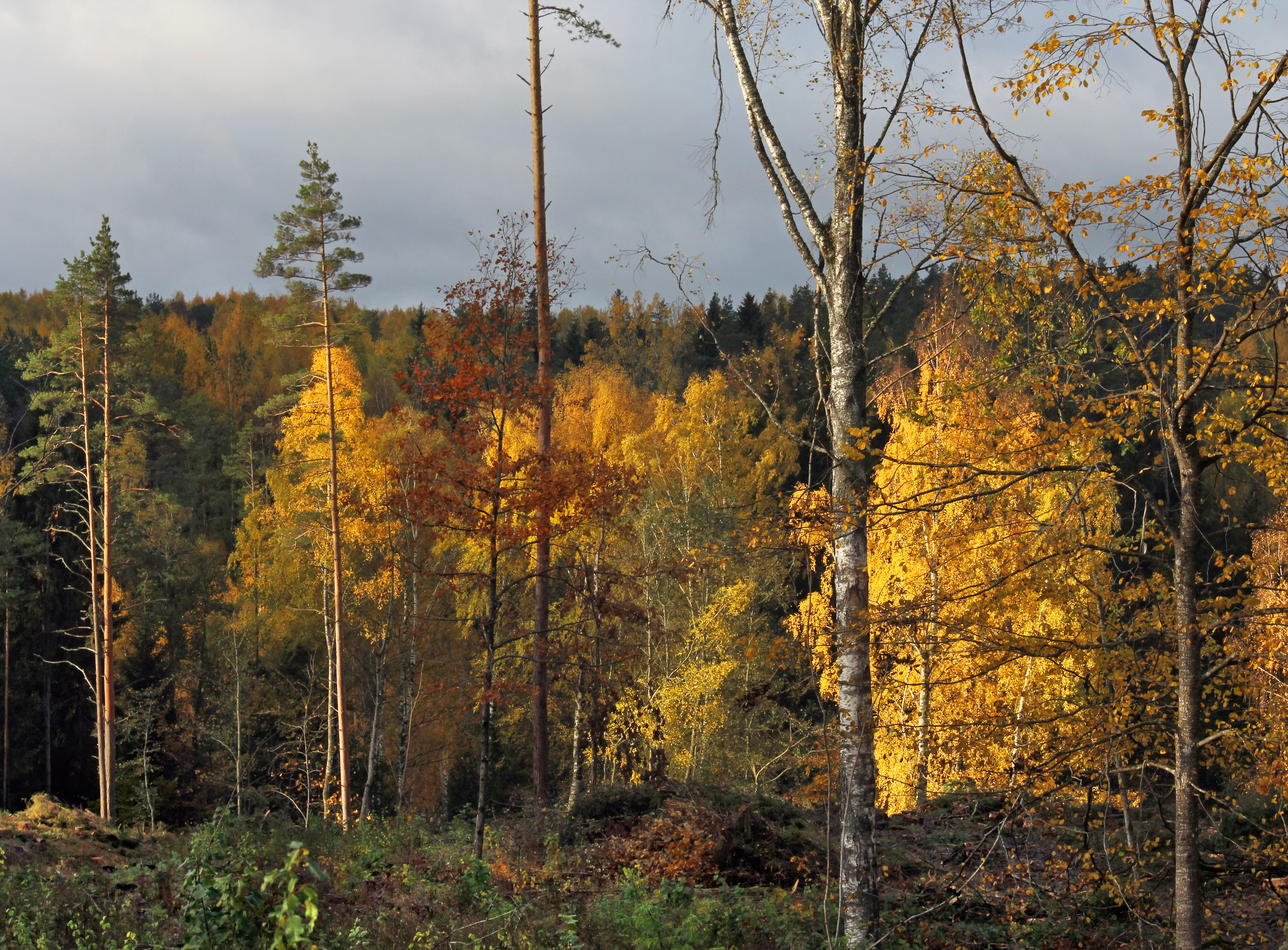 Autumn forest in Võru parish